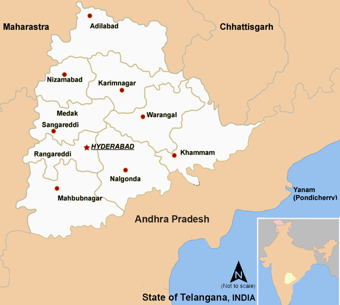 Telangana Districts Map